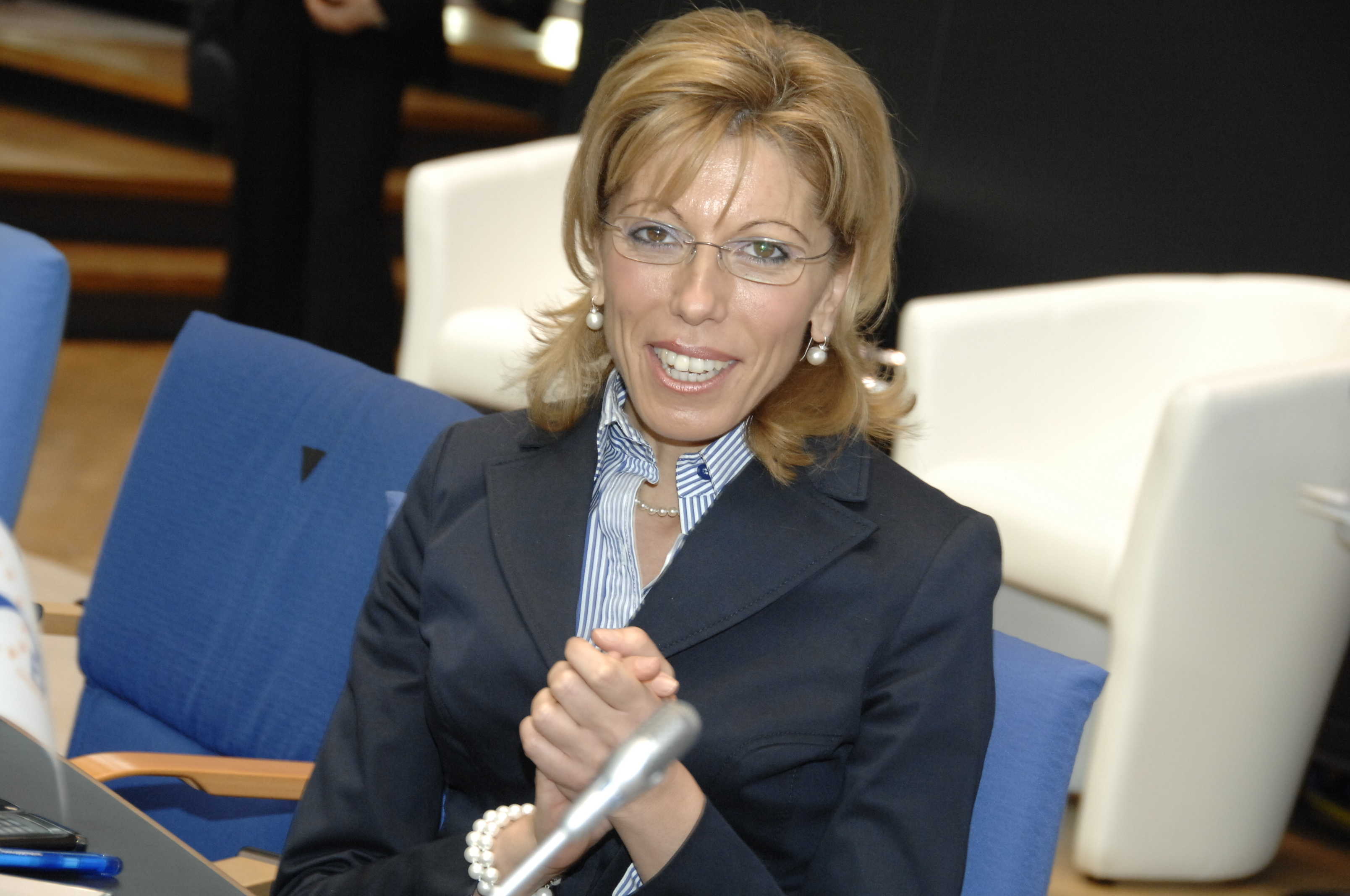 EPP Congress Bonn